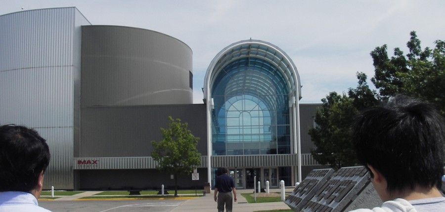 Entrance to the National Museum of the U.S. Air Force.